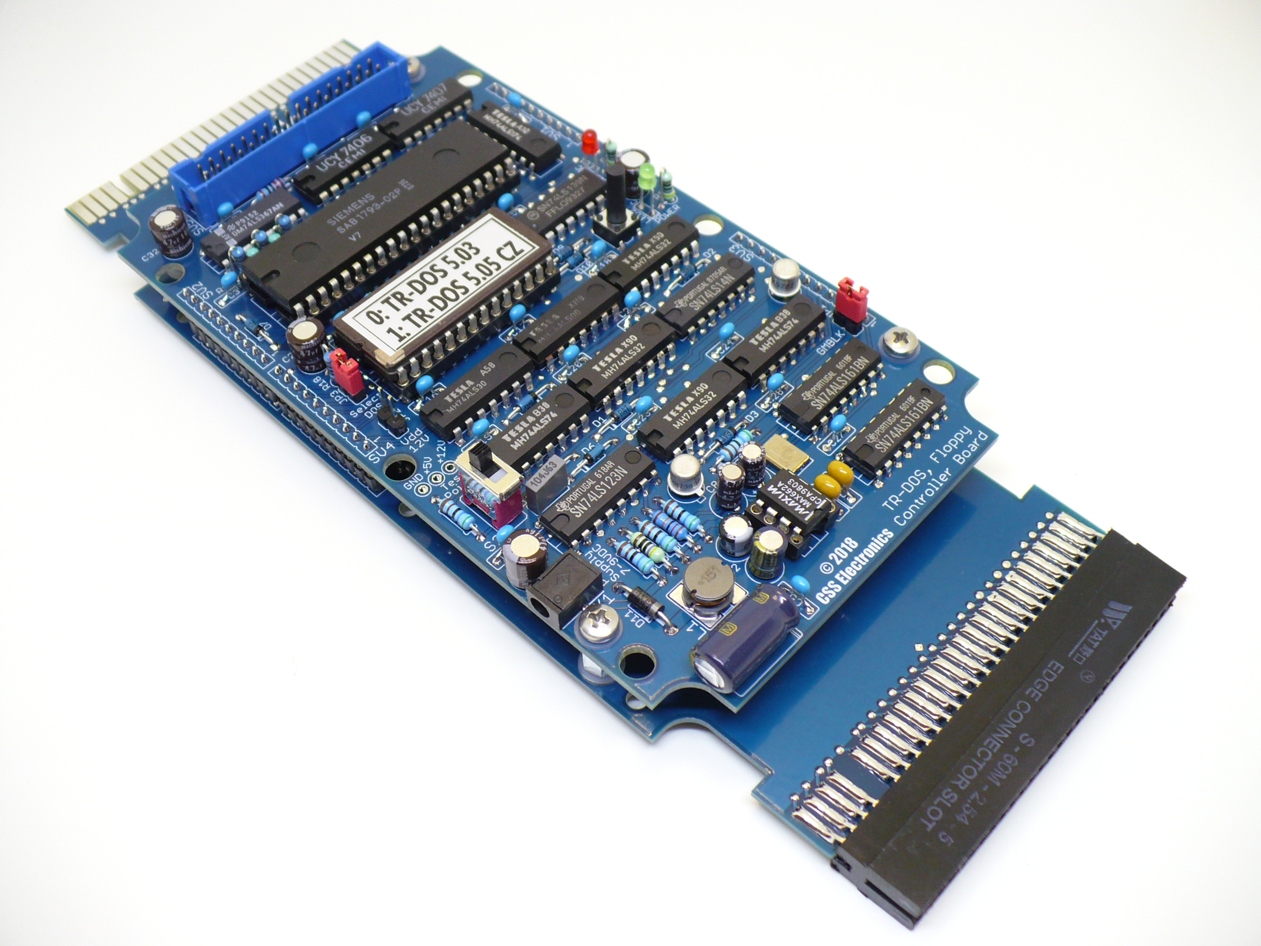 The Czech clone from 2018, the most popular floppy disk system for ZX Spectrum 48/128 (electronics)